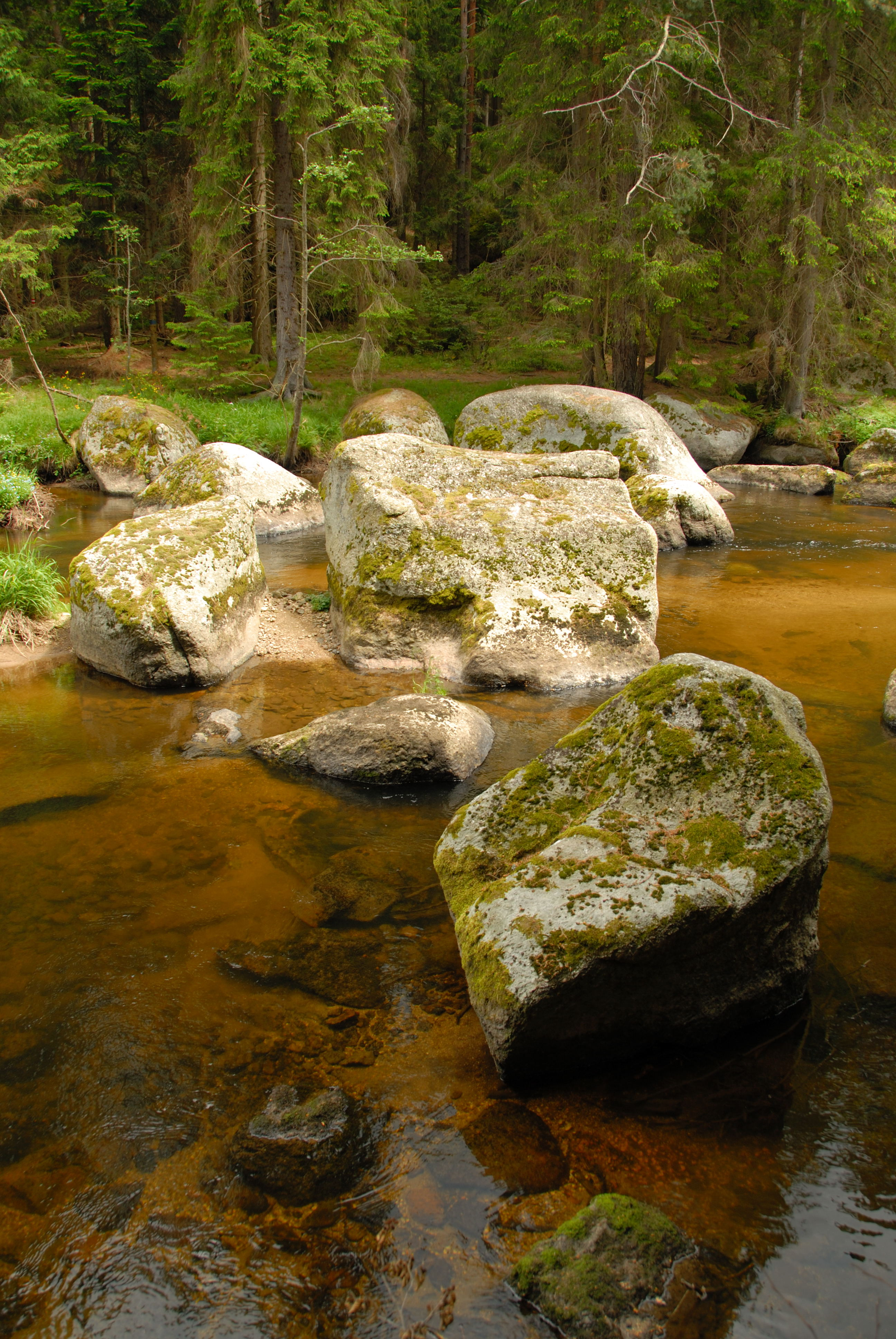 The river Kamp, a tributary of the Danube, Austria.